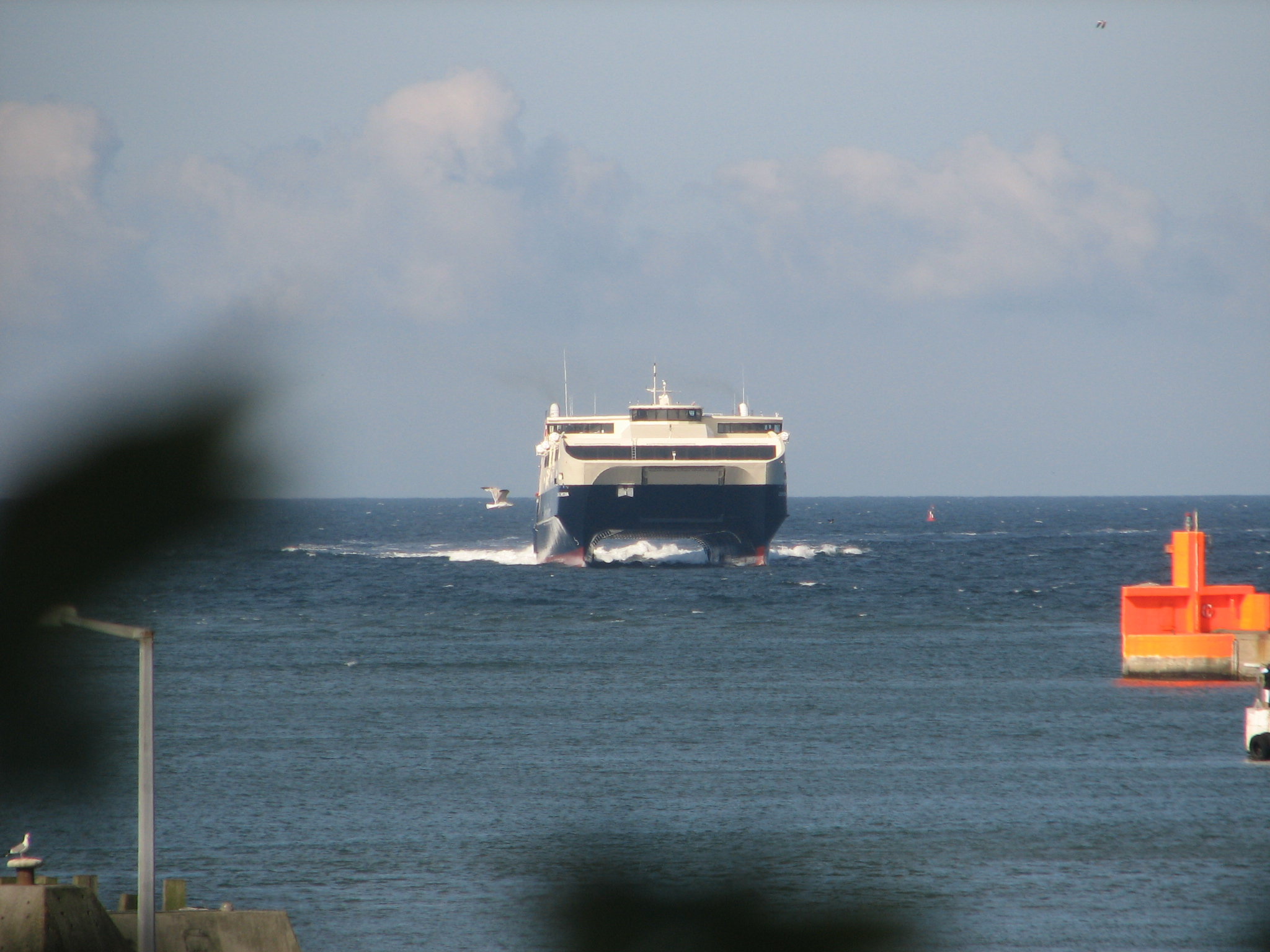 Leonora Christina in the harbour of Rønne